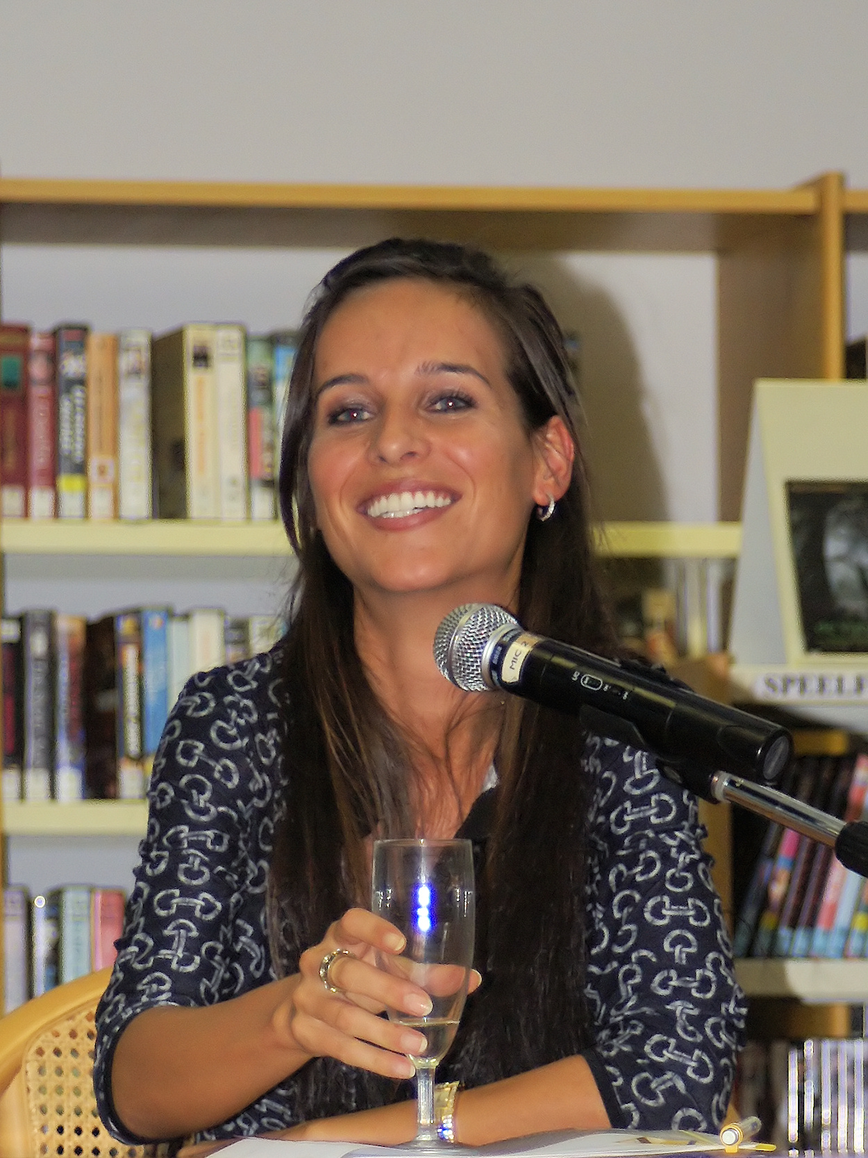 Ann Van Elsen at a quiz competition in Knokke Heist library, Belgium